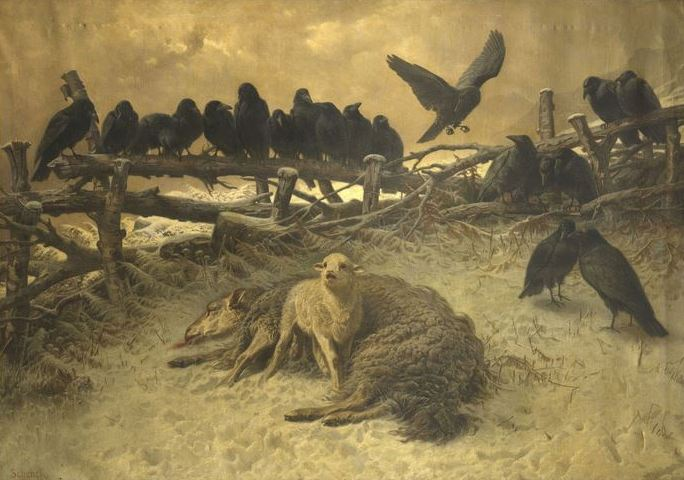 See : notice Restoration of Schenck's Orphan